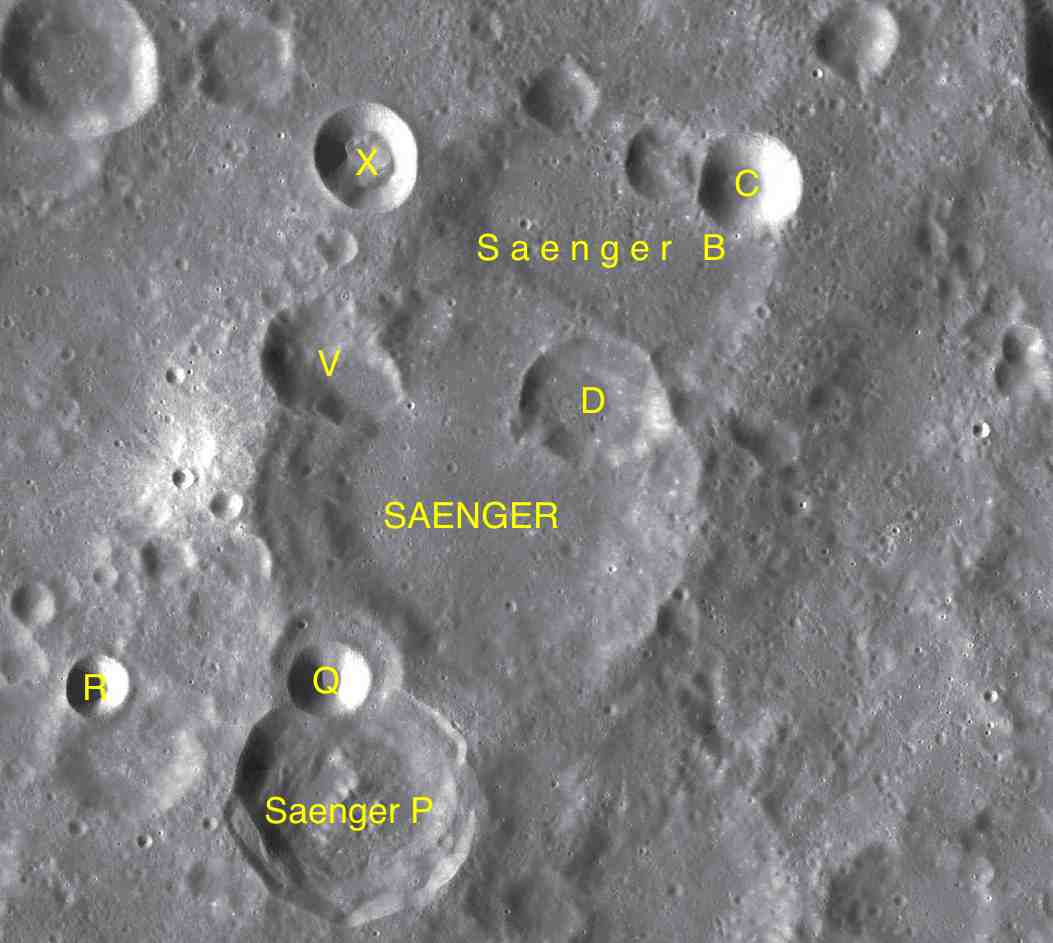 Part of the chart LAC-64 used for the presentation